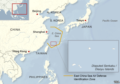 East China Sea Air Defense Identification Zone